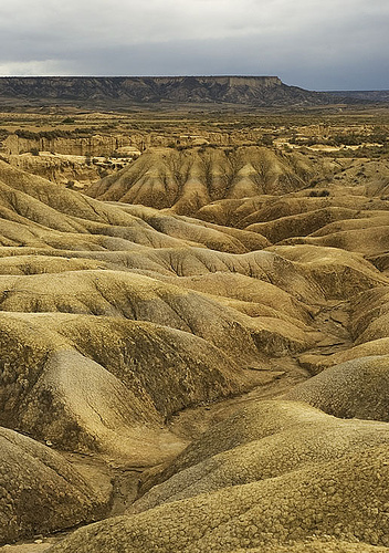 Bardenas Reales, in Navarra, Spain